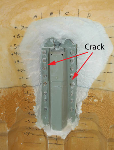 detail of external tank crack on STS-133